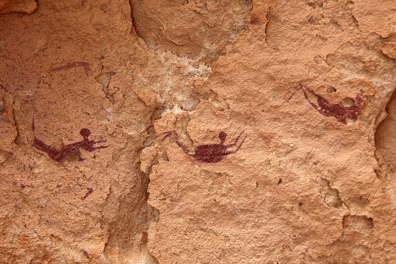 Painting of swimmers in the Cave of the Swimmers, Wadi Sura, Western Desert, Egypt